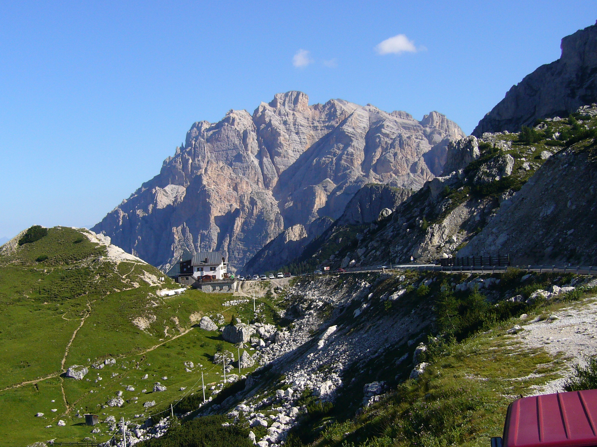 Photo on Valparolapass